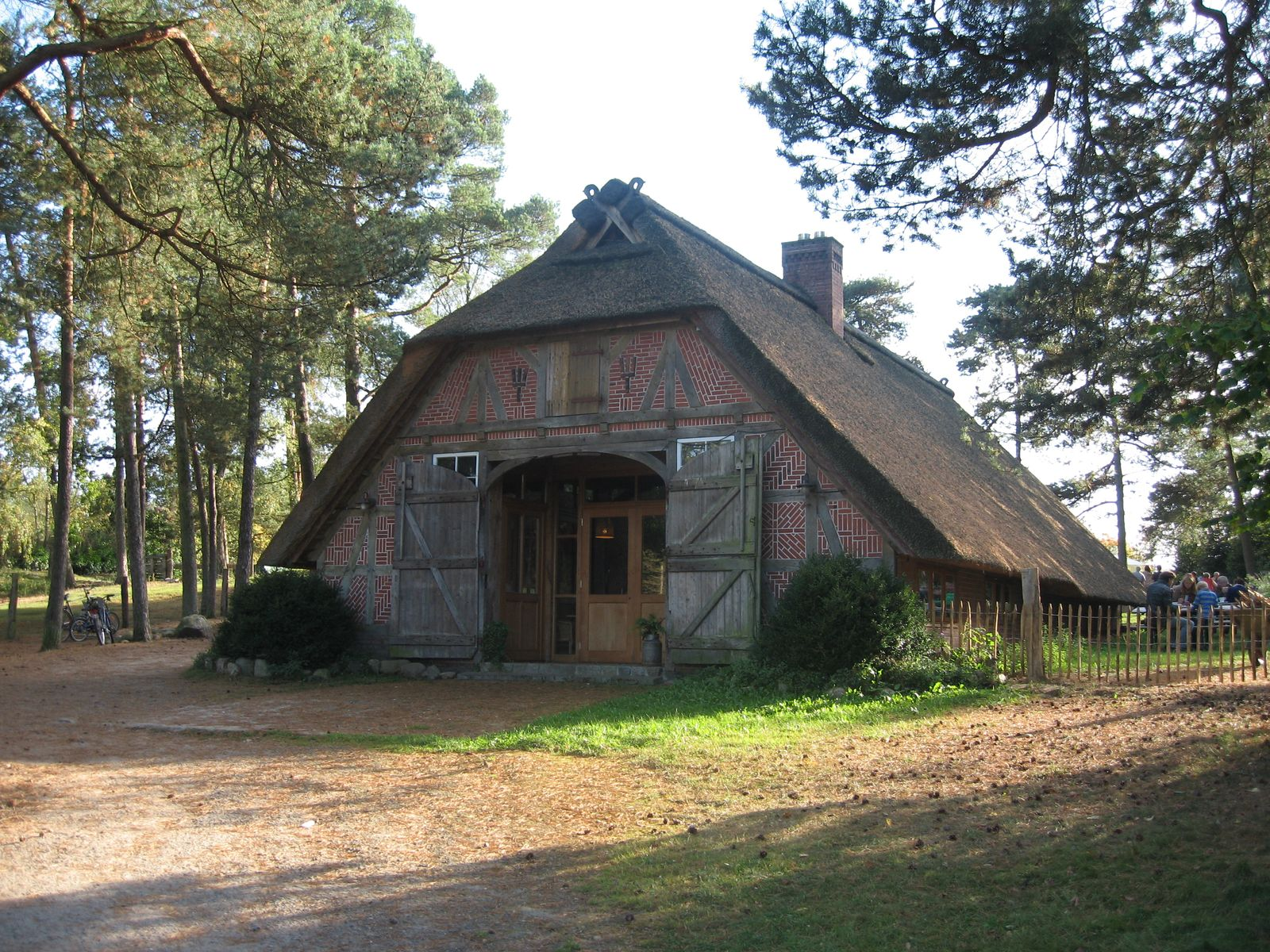 Wörme Schafstall